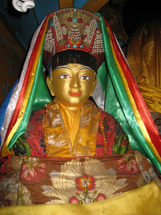 famous milarepa statue from Nyanang Phelgyeling Monastery